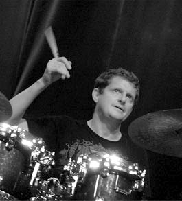 Jim Black